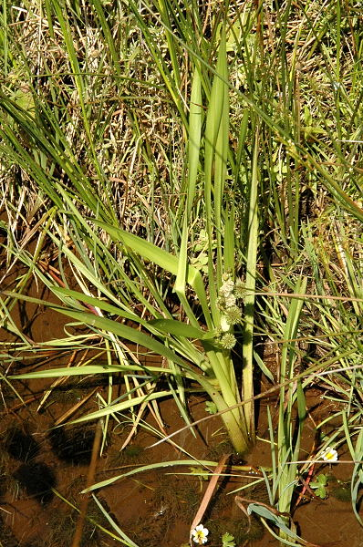 Picture taken in Commanster, Belgian High Ardennes . Species: Sparganium erectum